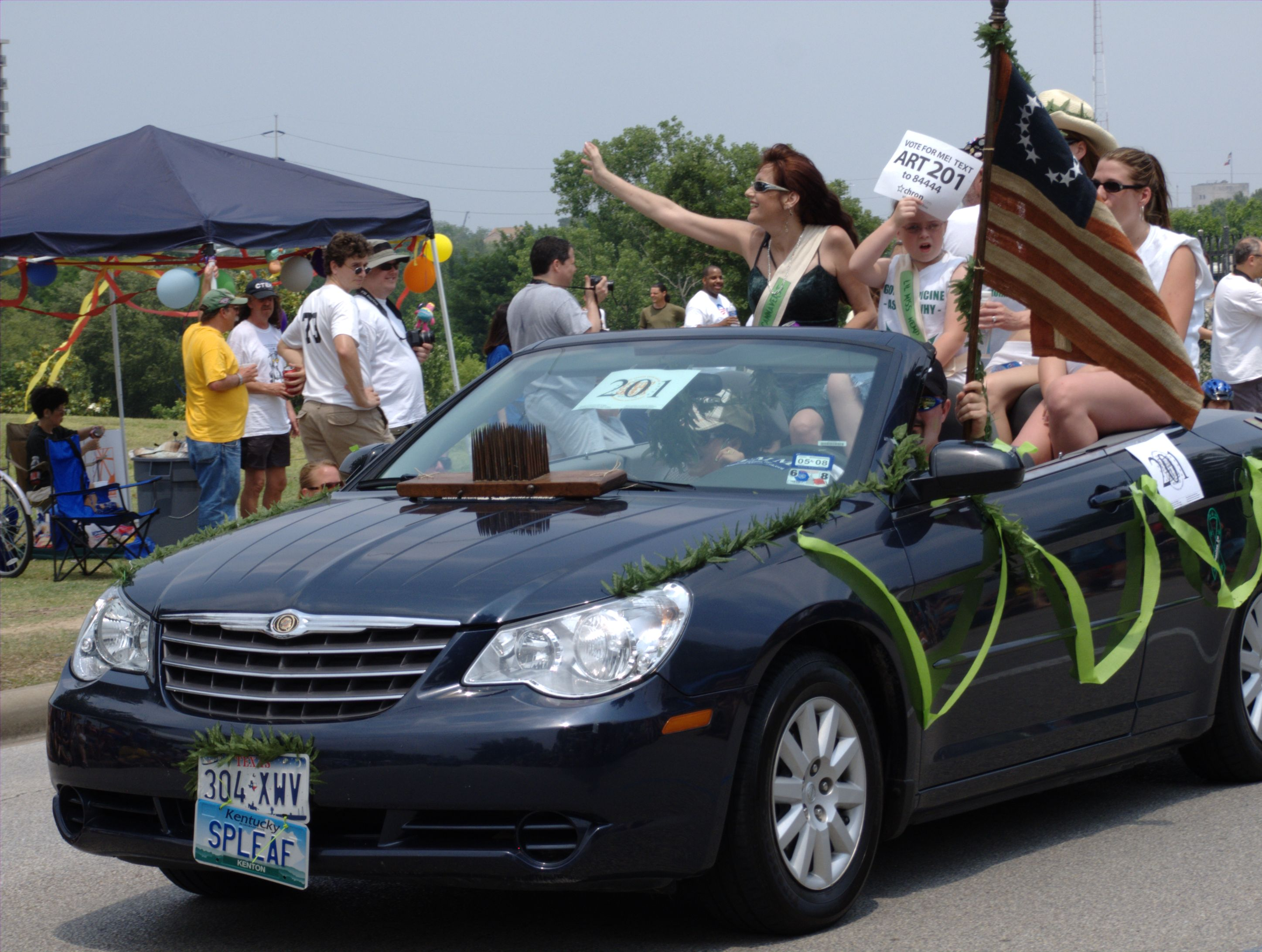 Houston NORML's Miss Marijuanica in the Art Car Parade, on May 10, 2008.